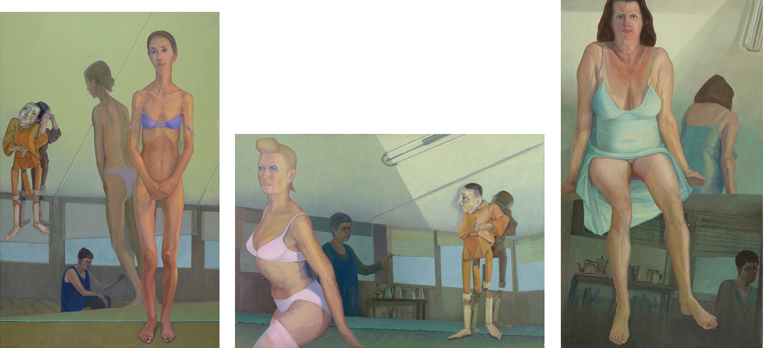 חוה ראוכר, "נערות לוח שנה", שמן על בד 190X400 ס"מ 1999-2001, צילום: אבי אמסלם Hava Raucher, Calendar Girls, oil on canvas 190 on 400 cm